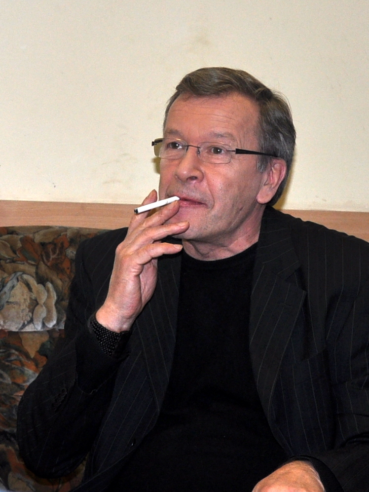 Victor Erofeyev